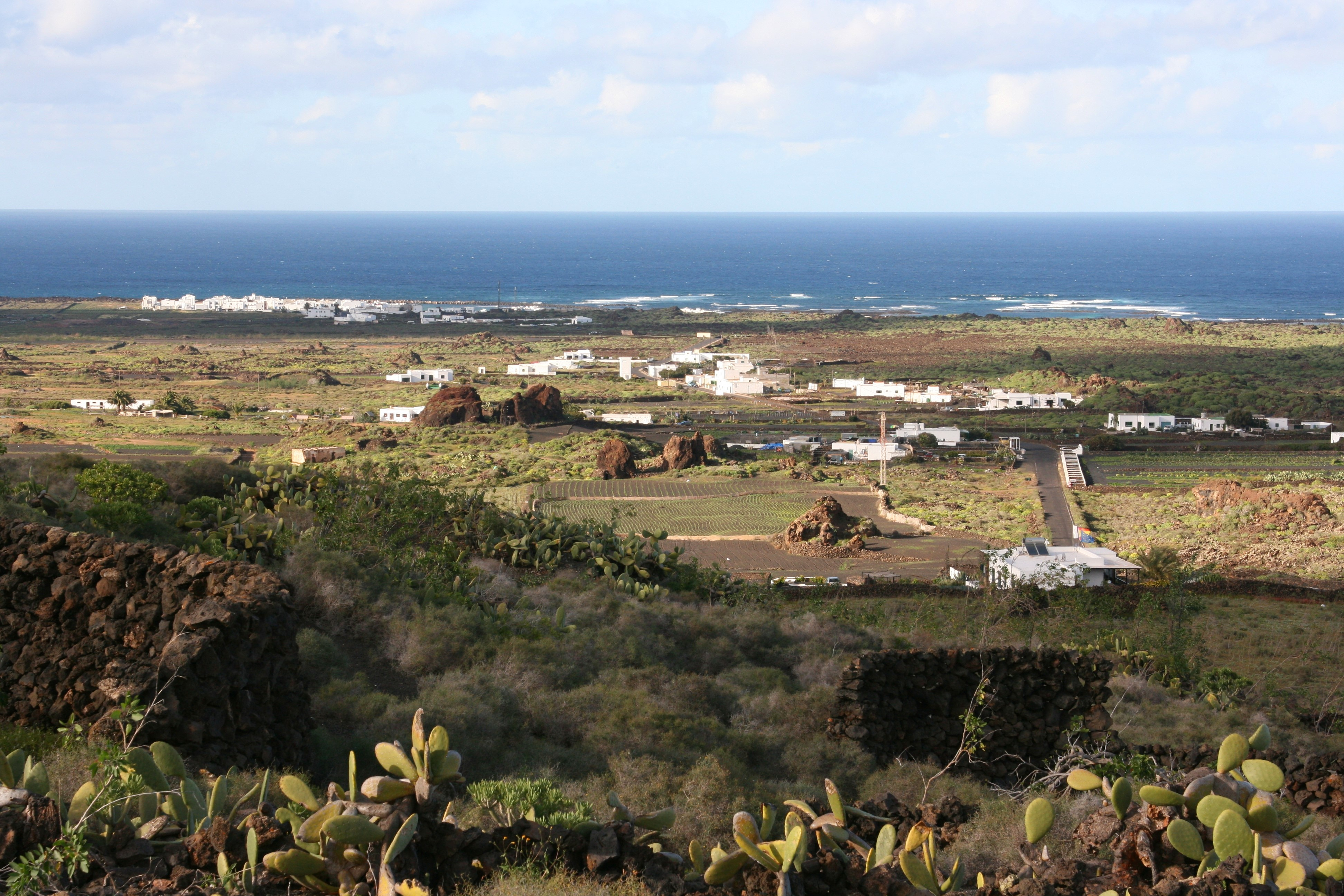 Lava domes at Lugar Diseminado Ye (LZ-204), close to "Casas la Breña" with Orzola in background, in Haría, Lanzarote, Canary Islands